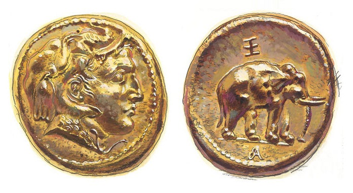 Apart from the Alexander portrait discovered at his father's burial chamber in Vergina, only one other Alexander portrait exists that was known to have been made during his lifetime. It appears on a gold coin, no larger than a U.S. penny, found in 1993 at the village of Mir Zakah in Paktia province, eastern Afghanistan. The looting of Mir Zakah in 1992-93 - which yielded some four tons of coins and some 770 pounds of gold and silver objects - is legendary. The Alexander coin seen here quickly made its way to London, where it is now in a private collection! [the owner allows the coin to be reproduced only as a drawing to prevent it from being copied]. Other Mir Zakah artifacts are in the Japanese Miho Museum. The remainder have been scattered, sold to collectors around the world! به غیر از پُرتریت (تصویر صورت) اسکندر که در آرامگاه زادگاهش در وِرگینا (شهری کوچک در شمال یونان) کشف شده، تنها یک تصویر دیگر از اسکندر وجود دارد که در دوران عمرش ضرب شده. این تصویر نادر دوم بر روی یک سکه طلا، که از سکه پنی امریکایی بزرگتر نیست، در سال ۱۹۹۳ در قریۀ میرزَکه در ولایت پکتیا پیدا شد. غارت و چپاول میرزکه در سال‌های ۱۹۹۲ و ۱۹۹۳- که گنجینه‌ای عظیم مشتمل بر چهار تُن (۴۰۰۰ کیلوگرم) سکه و در حدود ۷۷۰ پوند (حدود ۳۵۰ کیلوگرم) اشیاء طلا و نقره بود - بقدری گسترده و جبران‌ناپذیر بوده که به یک رویداد افسانوی می‌ماند. این سکۀ اسکندر را که در تصویر بالا می‌بینید، بسرعت سر از لندن در آورد، و فعلا در همین شهر در کلکسیون شخصی یک نفر جای گرفته است! [صاحب این سکه تنها رسامی از این سکه را اجازه داده تا از کاپی شدن آن جلوگیری شود]. آثار باستانی دیگر از میرزکه در موزیم میهو در جاپان (ژاپن) موجود است. بقیۀ این گنجینه در سطح دنیا پراکنده شده و به کلکسیونرها در اقصا نقاط دنیا فروخته شده است